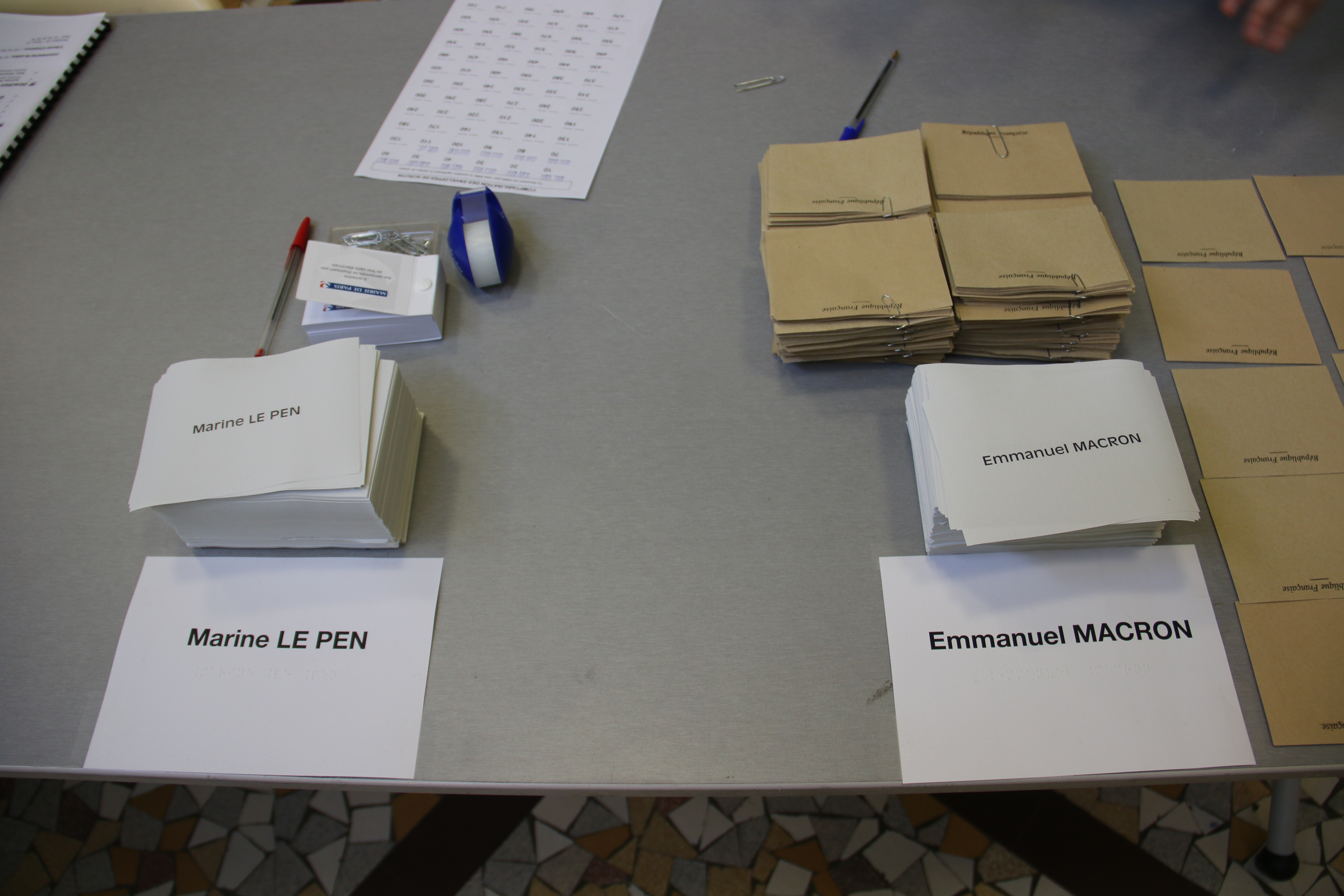 Voting cards for the second round of the french presidential elction 2017 between Emmanuel Macron and Marine Le Pen.